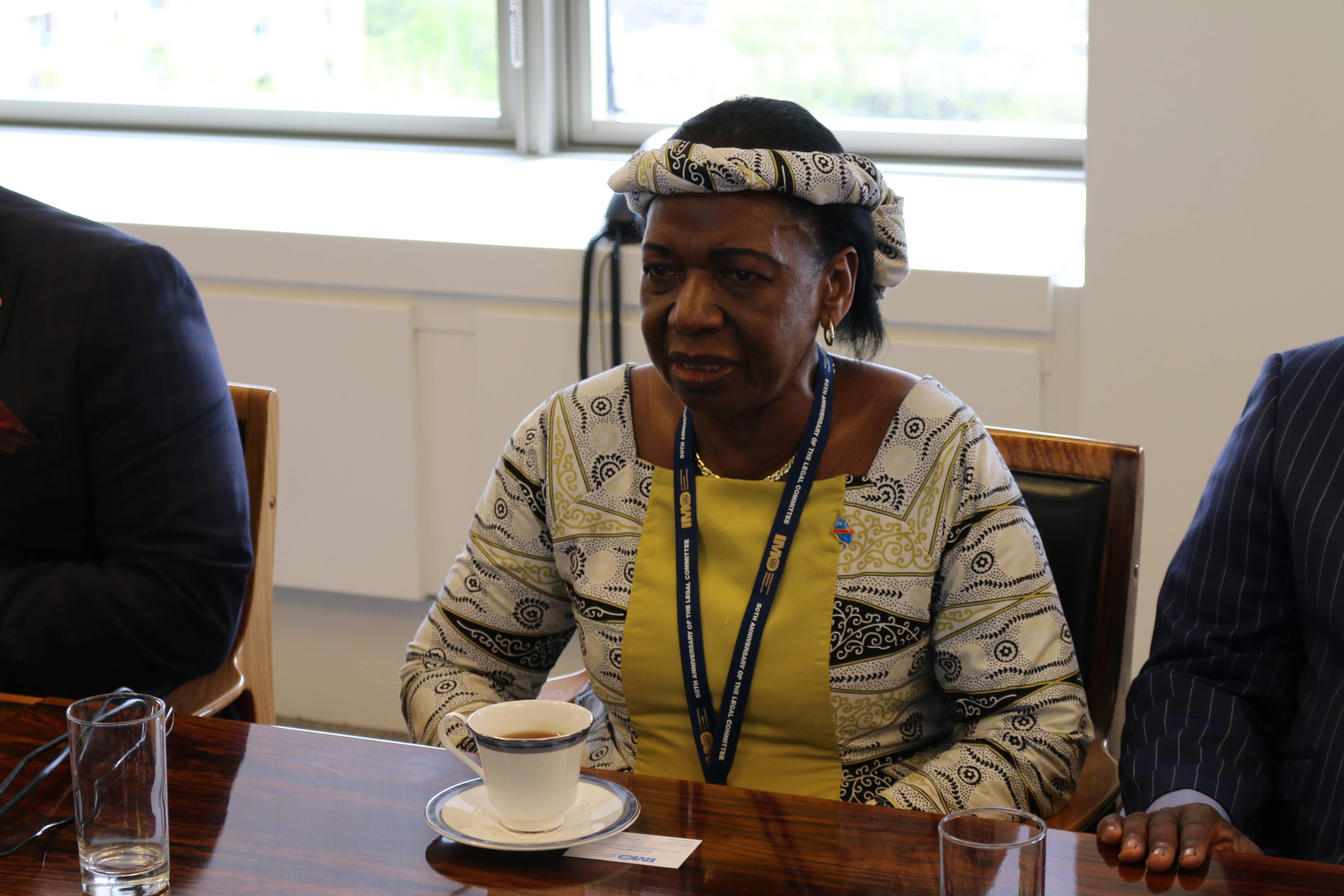 IMO Secretary-General Kitack Lim receives H.E. Ms. Marie Marguerite Ndjeka Opombo, Ambassador Extraordinary & Plenipotentiary, Permanent Representative of the Democratic Republic of the Congo to the IMO, at IMO Headquarters, London.